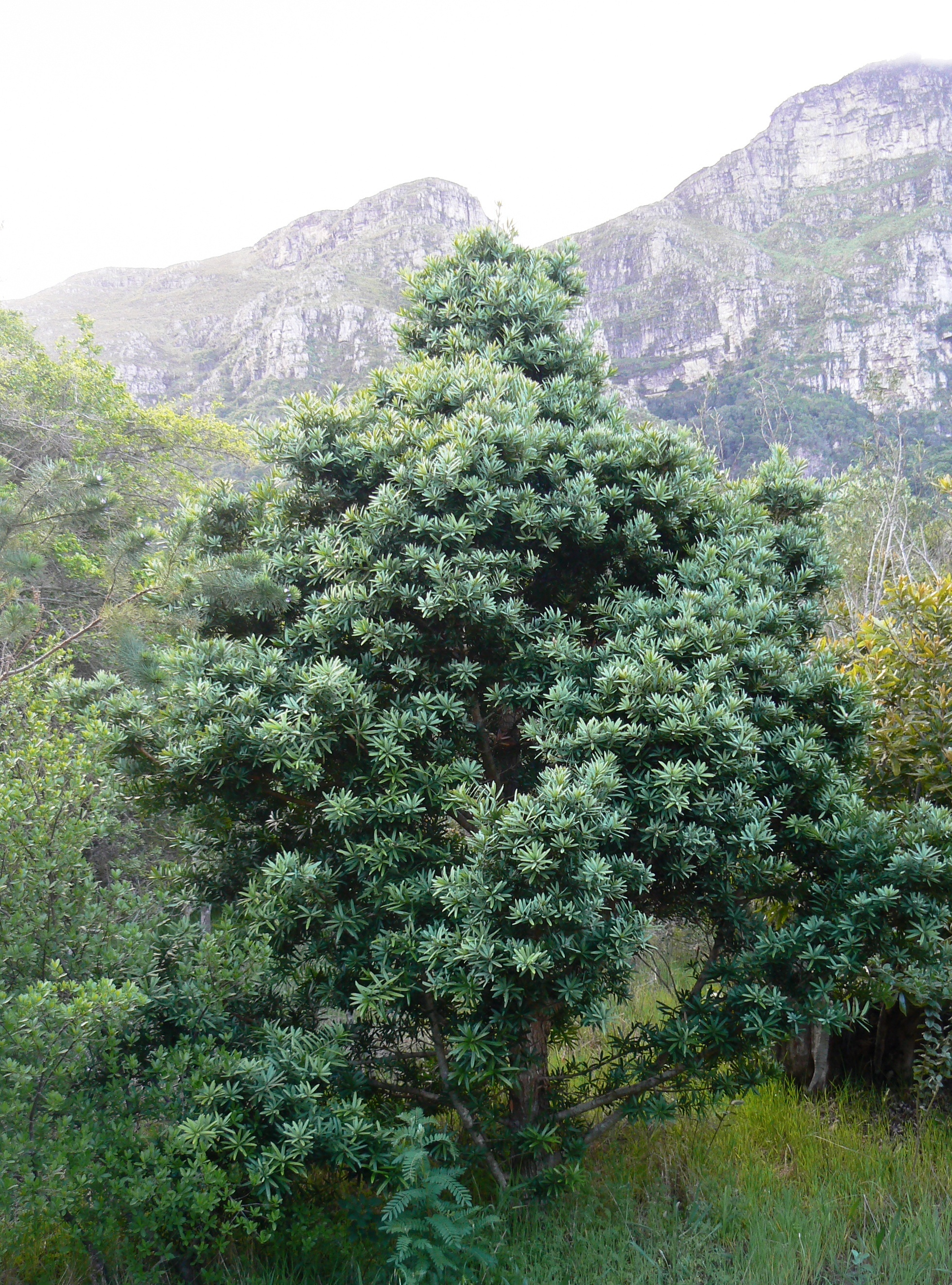 Podocarpus latifolius or Real Yellowwood tree. Growing on the slopes of Tble Mountain Cape Town.